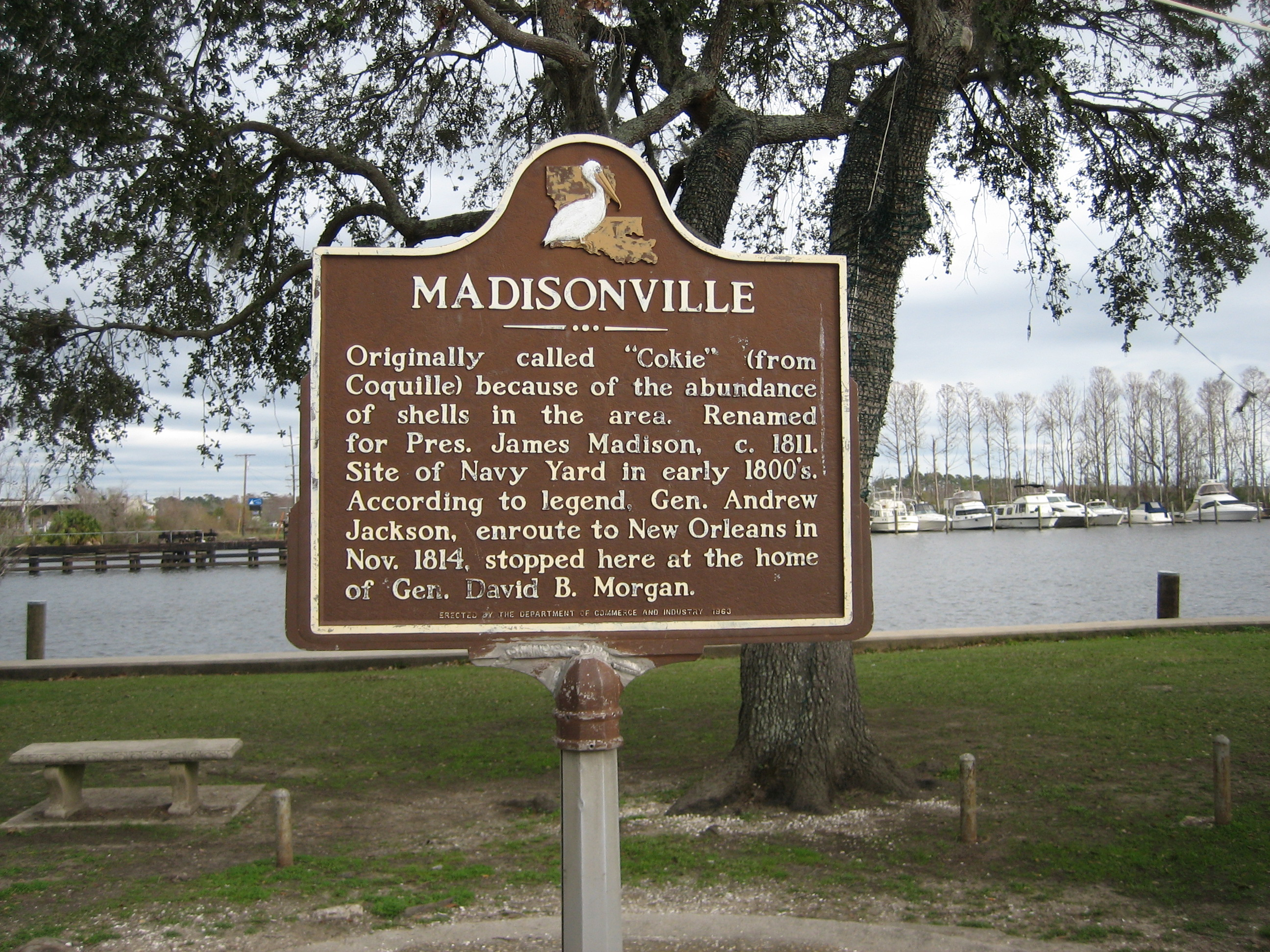 Historic marker by shore of Tchefuncte river in Madisonville, Louisiana